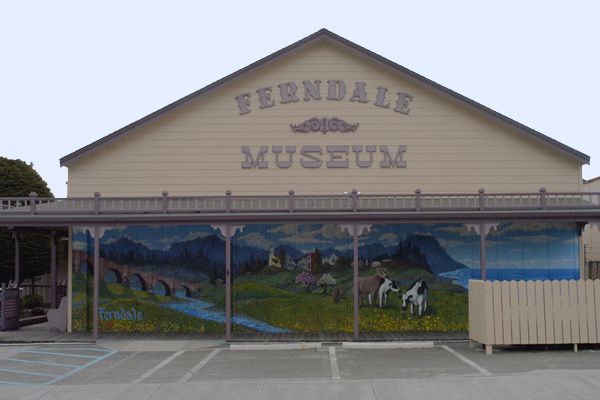 A front view of the Ferndale Museum, Ferndale CA showing the murals created by Empire Squared celebrating the location and history of Ferndale. Because the building is owned by the City of Ferndale, the murals are Public Domain, California Government